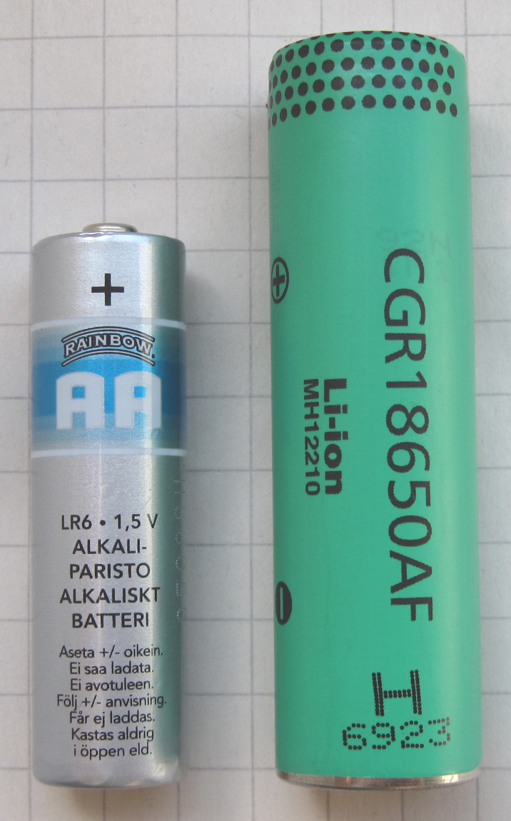 A 18650 Lithium-Ion size rechargeable battery (right) with an AA battery (left) and 7mm grid for scale. This size is most commonly found in laptop battery packs and the Tesla Roadster.